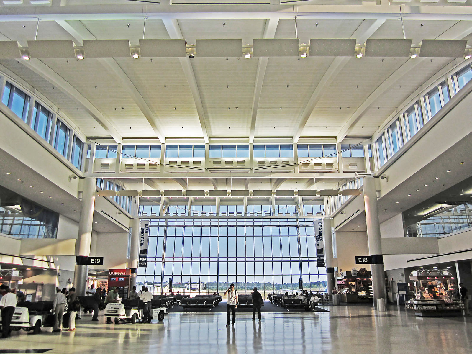 Terminal E at George Bush Intercontinental Airport in Houston.